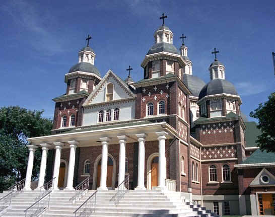 St. Josephat Ukrainian Catholic Cathedral